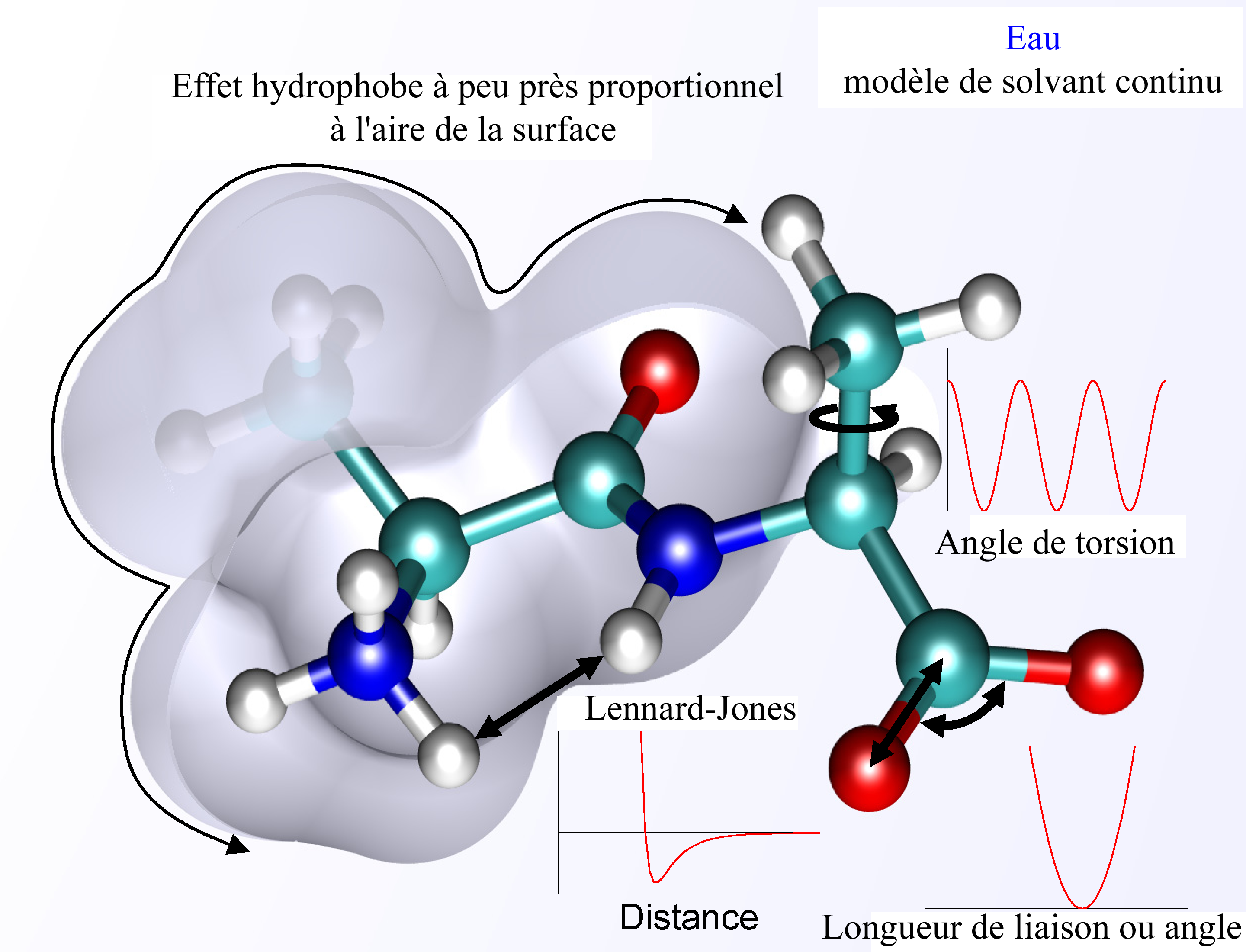 Physics on a molecular scale. The atoms in a molecule can be modeled as charged spheres connected by springs that maintain bond lengths and angles. The charged atoms interact with each other (via Coulomb's law) and with solvent. The model shown is called a molecular mechanics potential energy function, and it is used by programs like Folding@Home to simulate how molecules move and behave. The molecule shown is an alanine dipeptide.